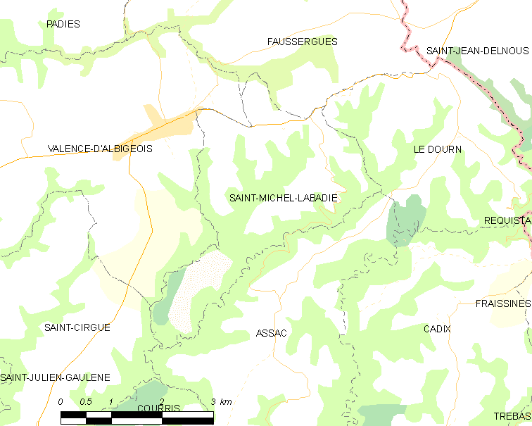 Map of French municipality Saint-Michel-Labadié